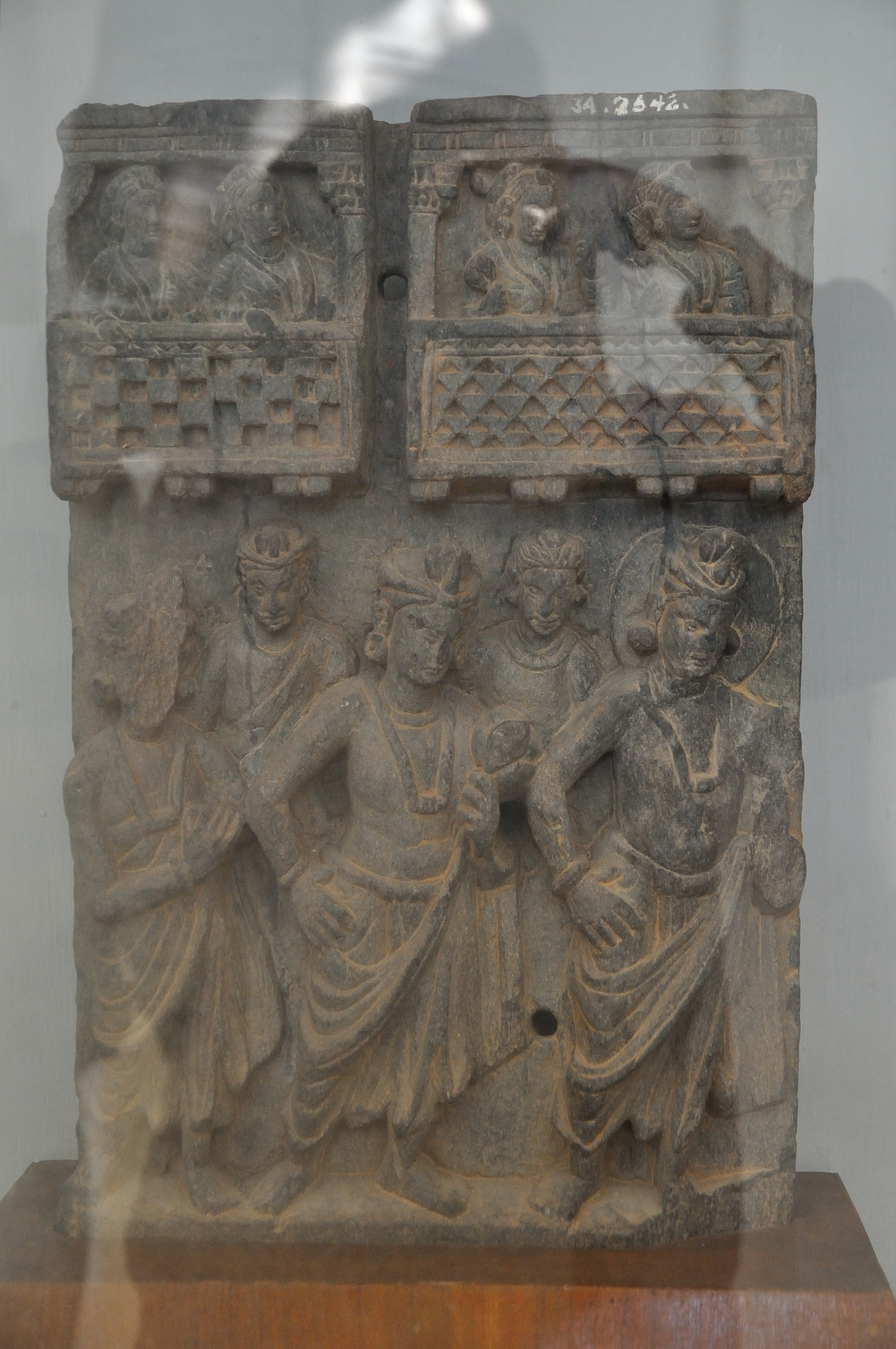 This artefact resides at the Government Museum, (hi: Rashtriya Sangrahalaya) formerly The Curzon Museum of Archaeology, Museum Road or Murari Lal Rajpal road, Dampier Nagar, Mathura, Uttar Pradesh, India. This museum is administrating by the State Government of Uttar Pradesh of India.